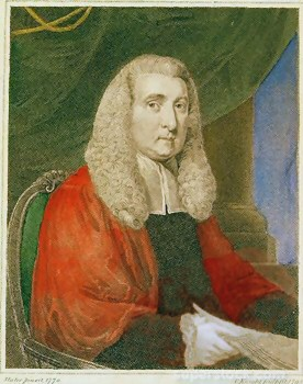 1795 portrait engraving of the English lawyer and naturalist Daines Barrington (1727-1800), from a painting made in 1770.